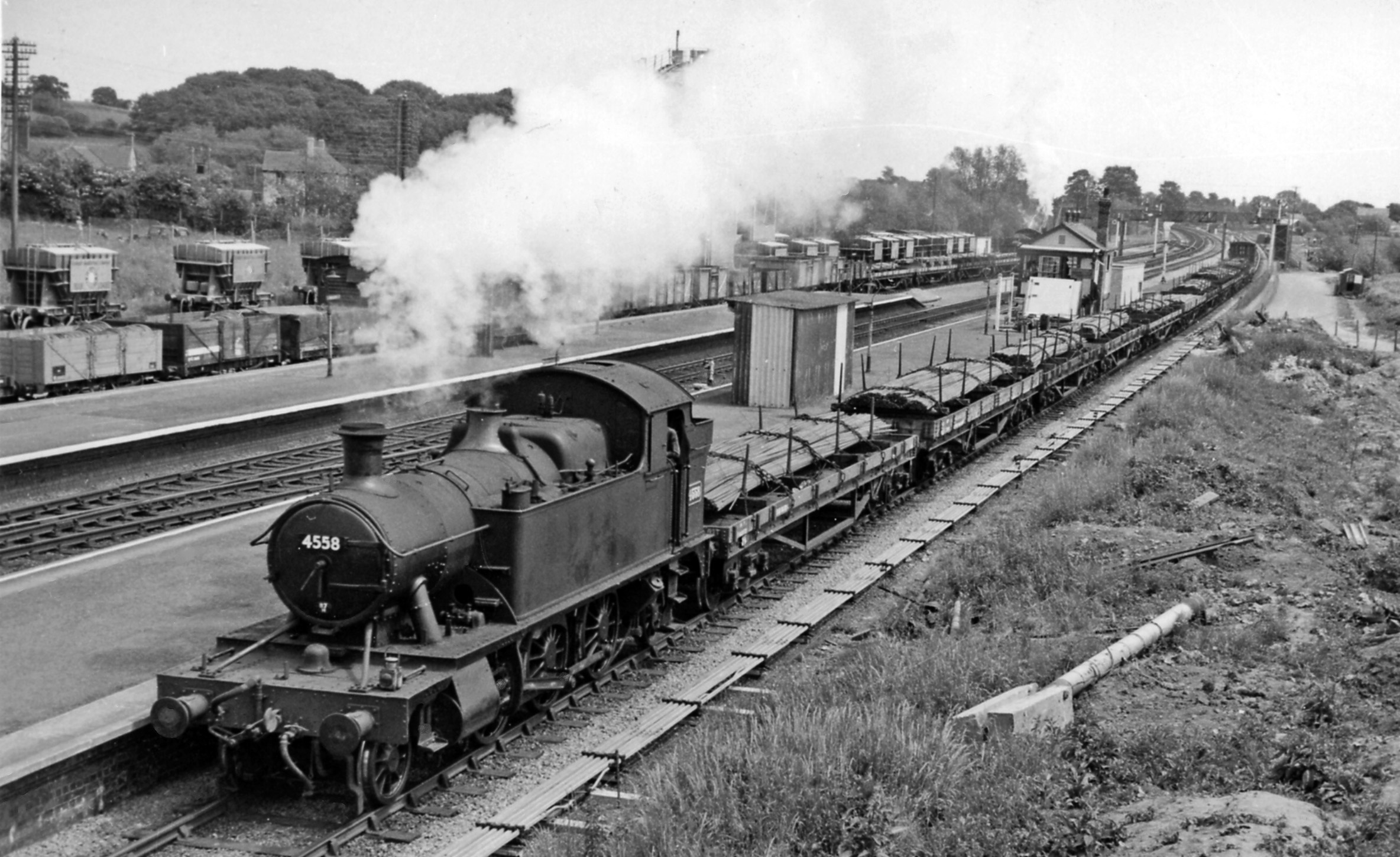 Down freight passing Magor. View eastward, towards Severn Tunnel Junction etc.: ex-GW South Wales main line, quadrupled in 1941. The '4500' 2-6-2Ts were more usually on branch passenger trains, but here on a Class K freight is No. 4558 (built 9/24). An Up freight is passing on the opposite side.